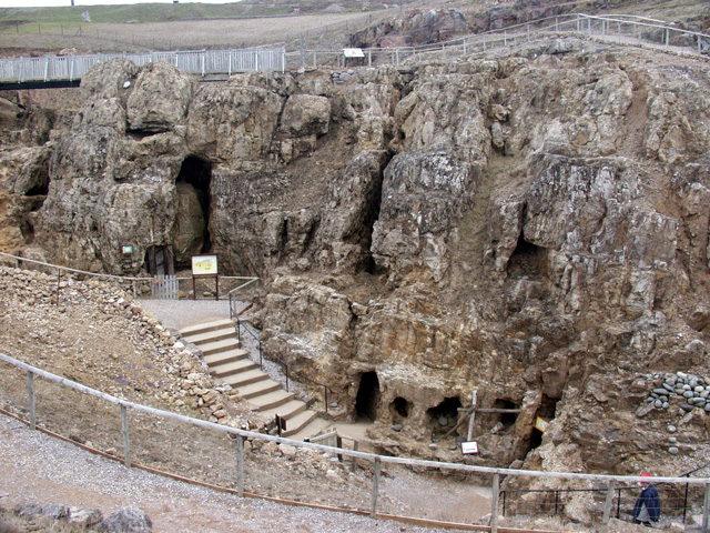 Great Orme Copper Mine. Neolithic mine complex, which is huge inside, and all dug in the Stone Age!